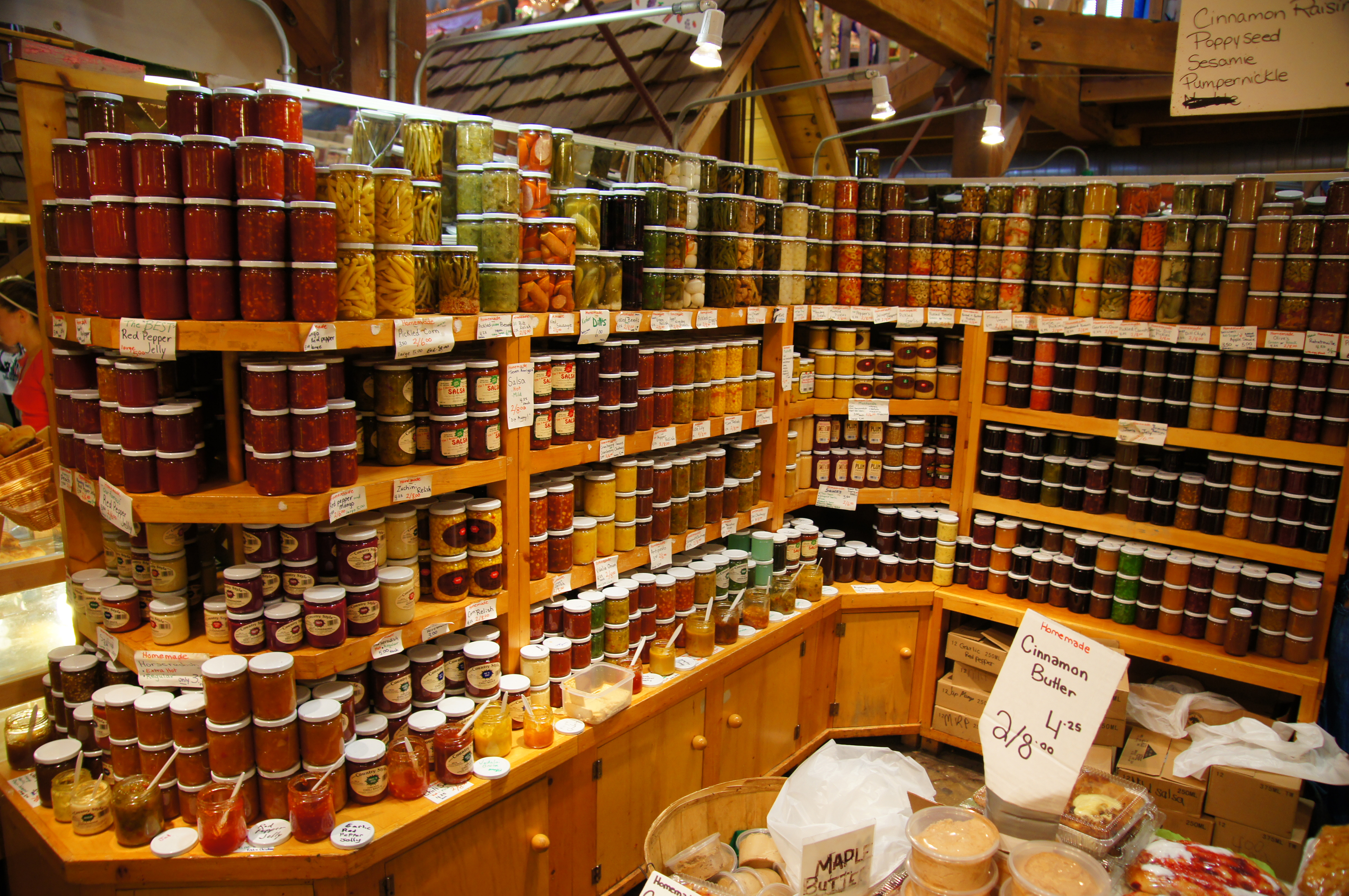 Preserves, jams and pickled food at St. Jacobs Farmers Market, July 2011. St. Jacobs, Ontario, Canada.